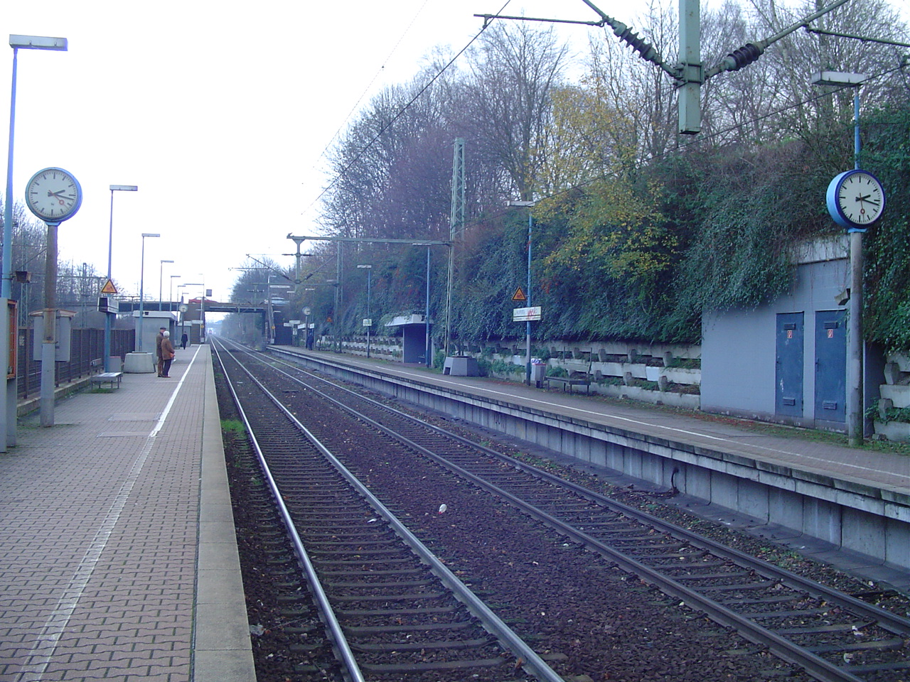 Langerfeld train station (S-Bahn), Wuppertal, Germany